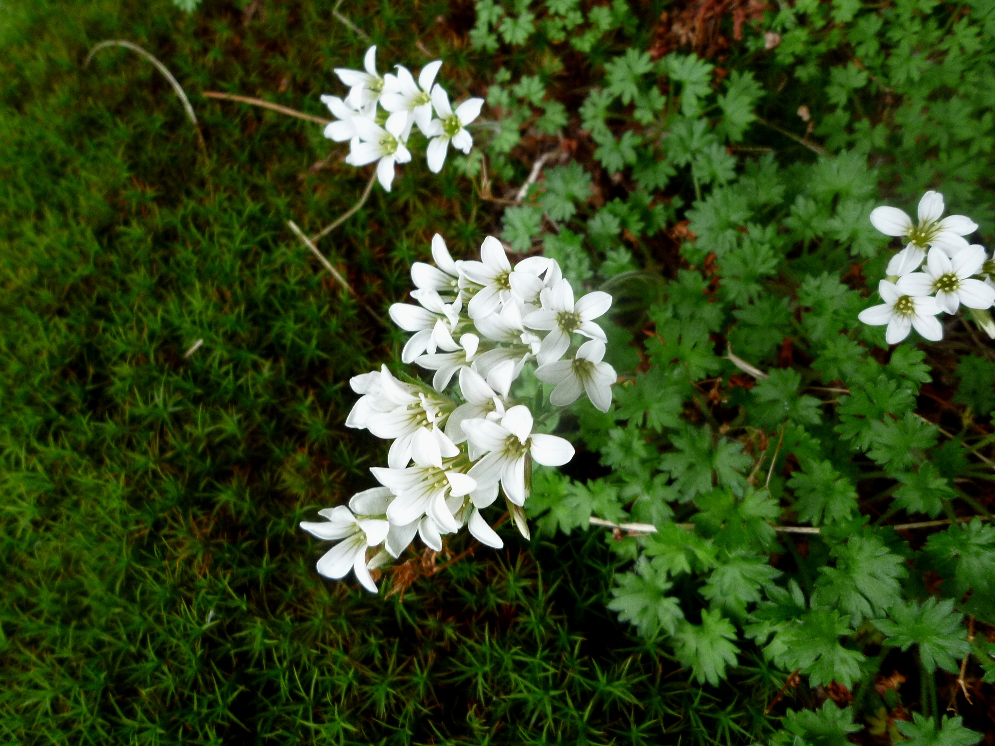 Saxifraga geranioides. In Estany Fosser, Cabdella (Pallars Jussà - Catalonia). To 2.250 m. altitude.